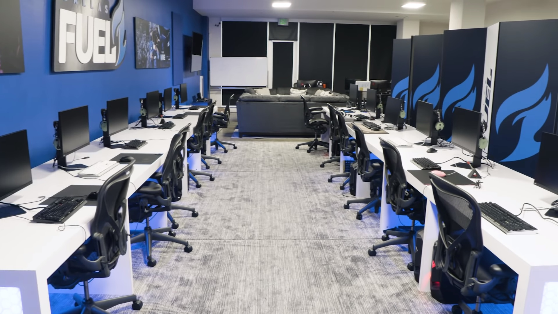 The Dallas Fuel player practice facility. Bottom right logo was removed from the Youtube screenshot.